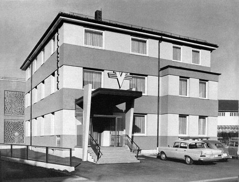 headquaters Volksbank Nagoldtal in 1965